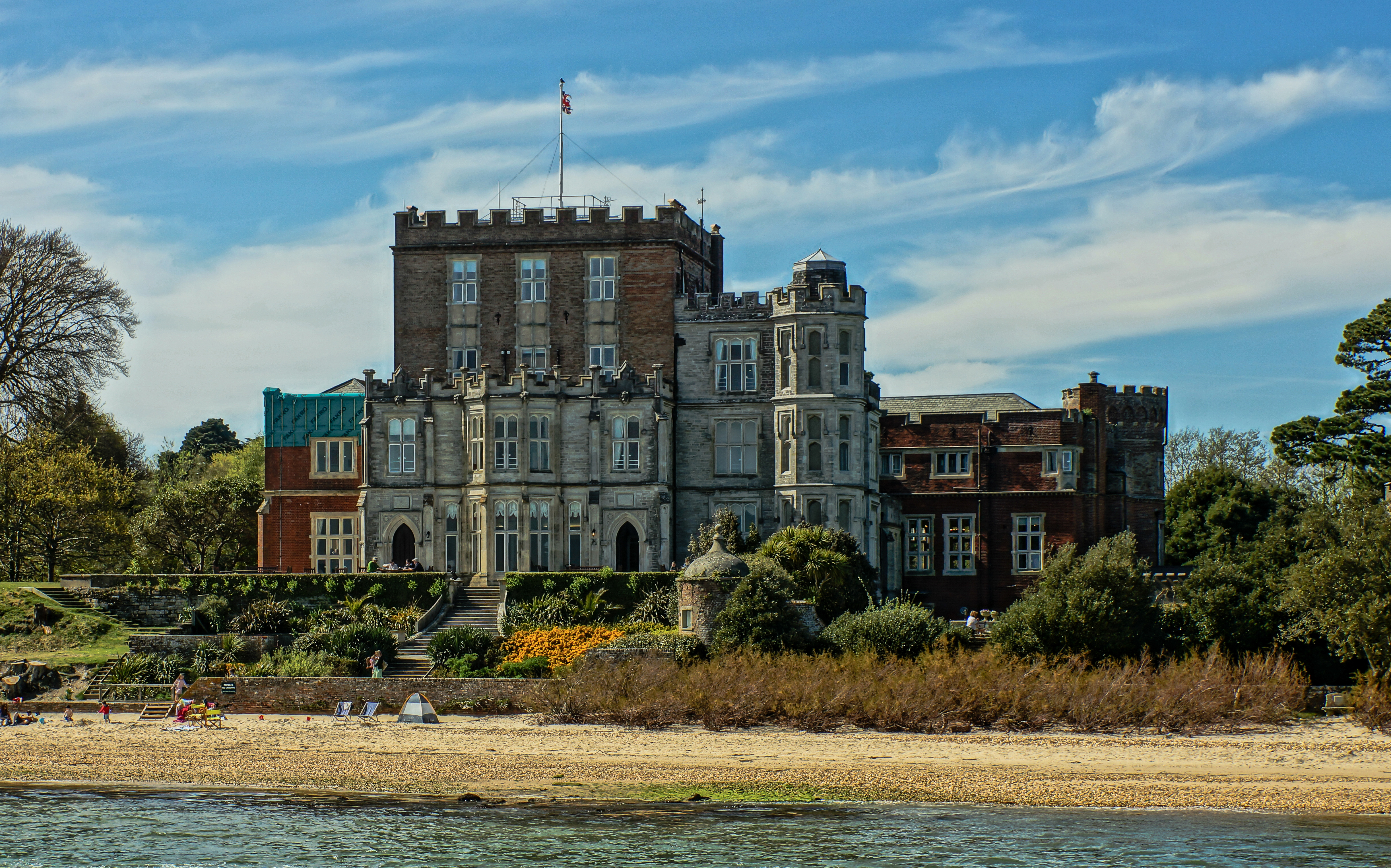 Brownsea Castle, trimmed slightly from original